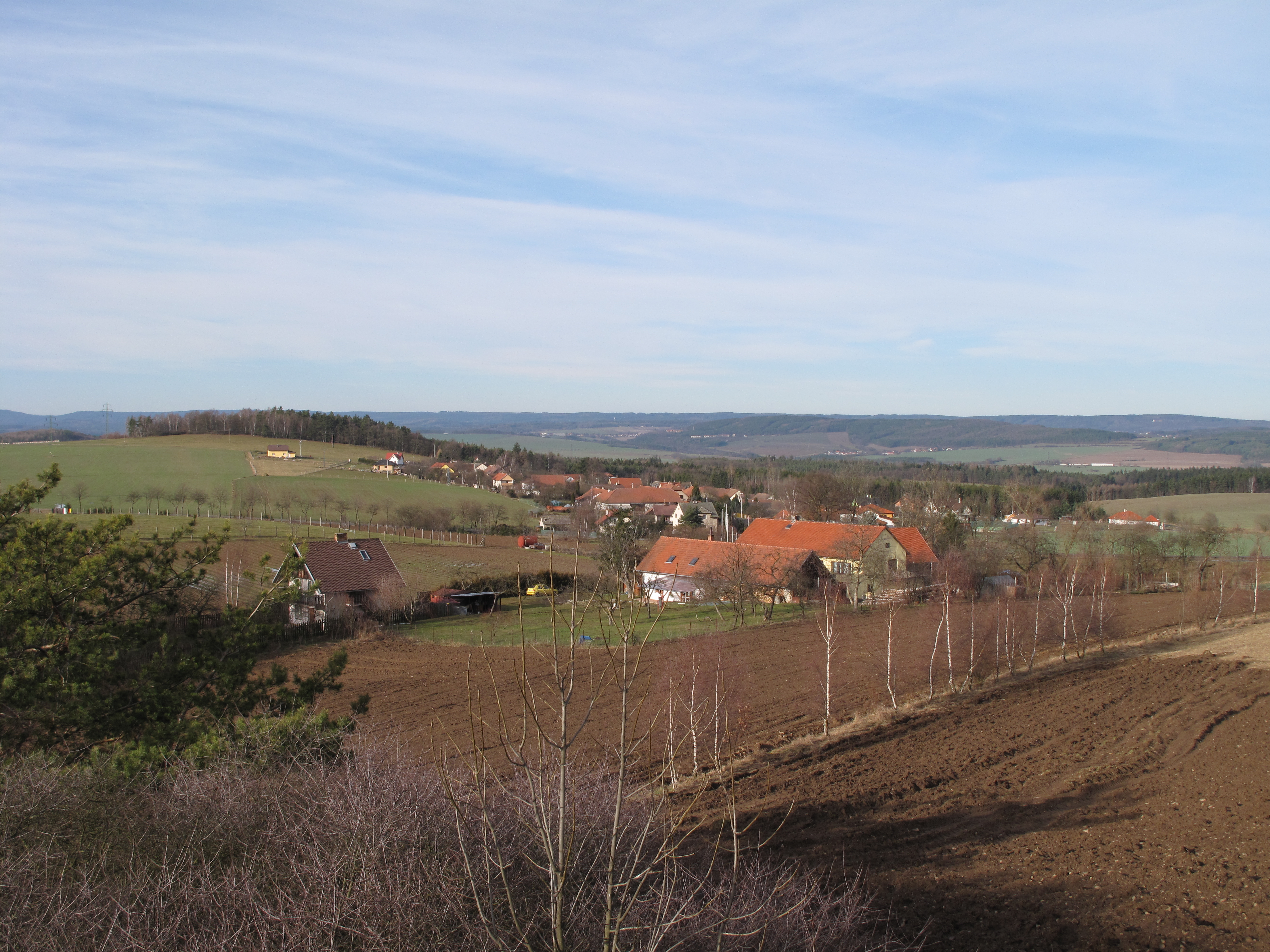 Porostliny village as seen from Bouska, Příbram District, Czech Republic.